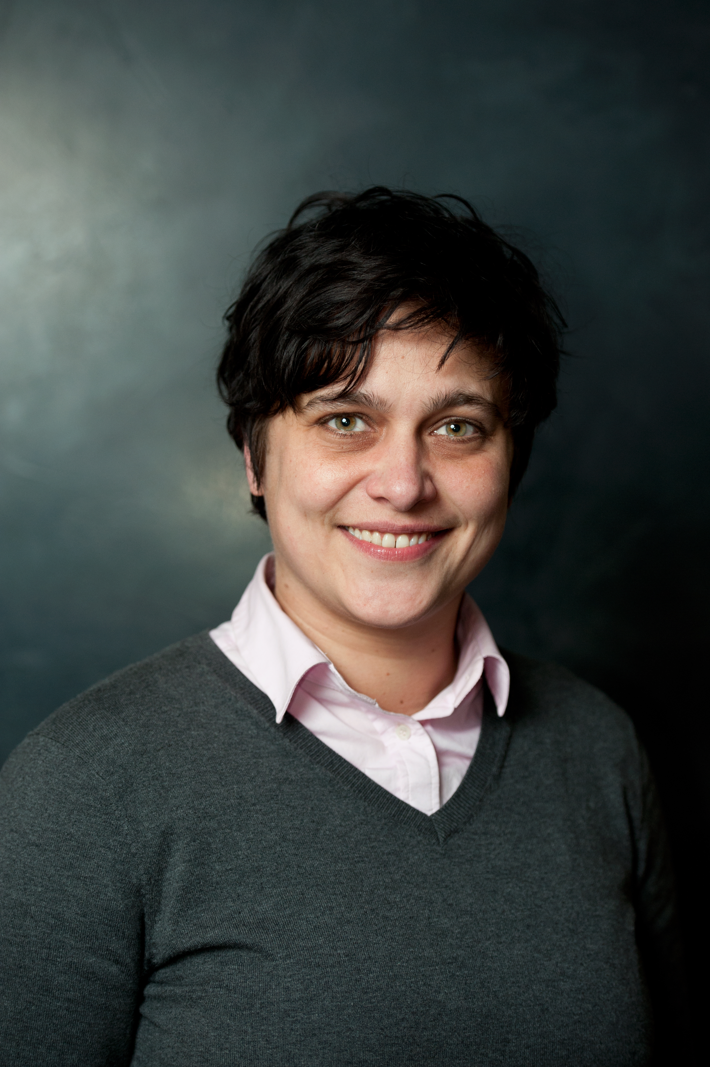 Silvia Modig (Left Alliance) Finland. Nordic Council Session 2012 theme in Reykjavik